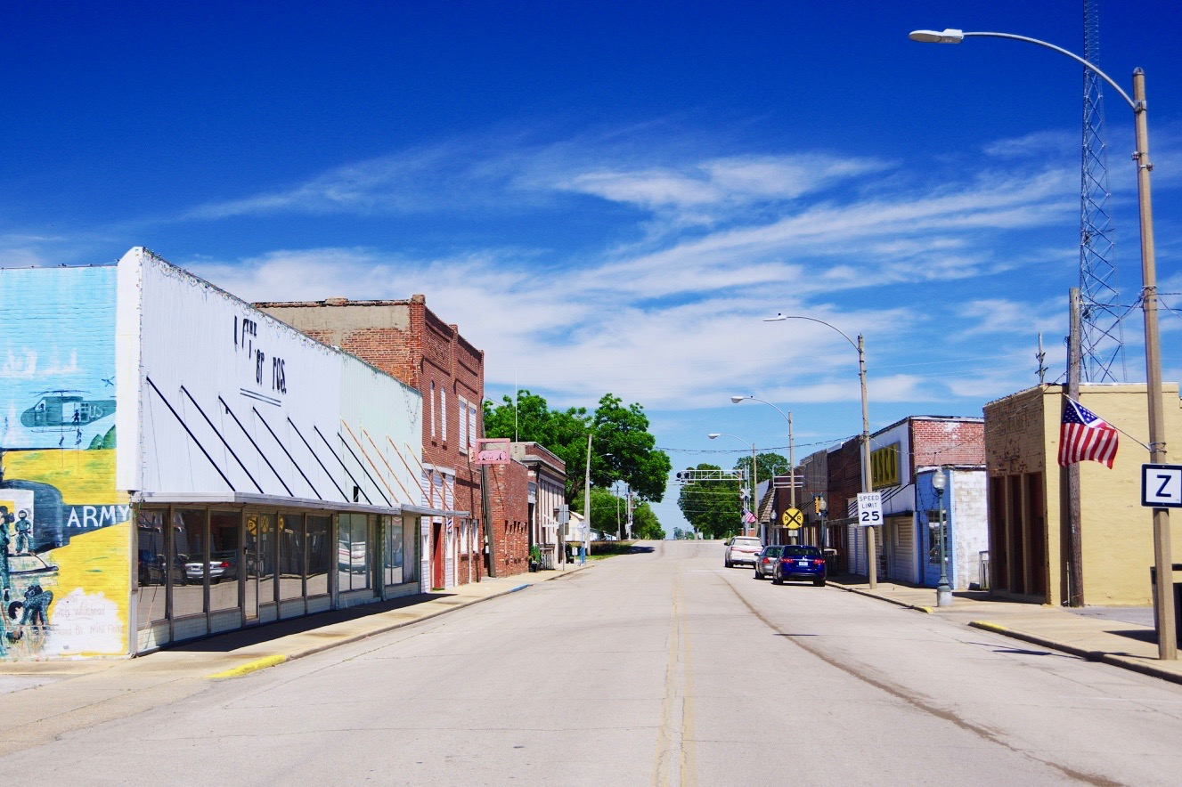 Main Street (Missouri Route Z / Stoddard Co.) in Bernie, Missouri, United States